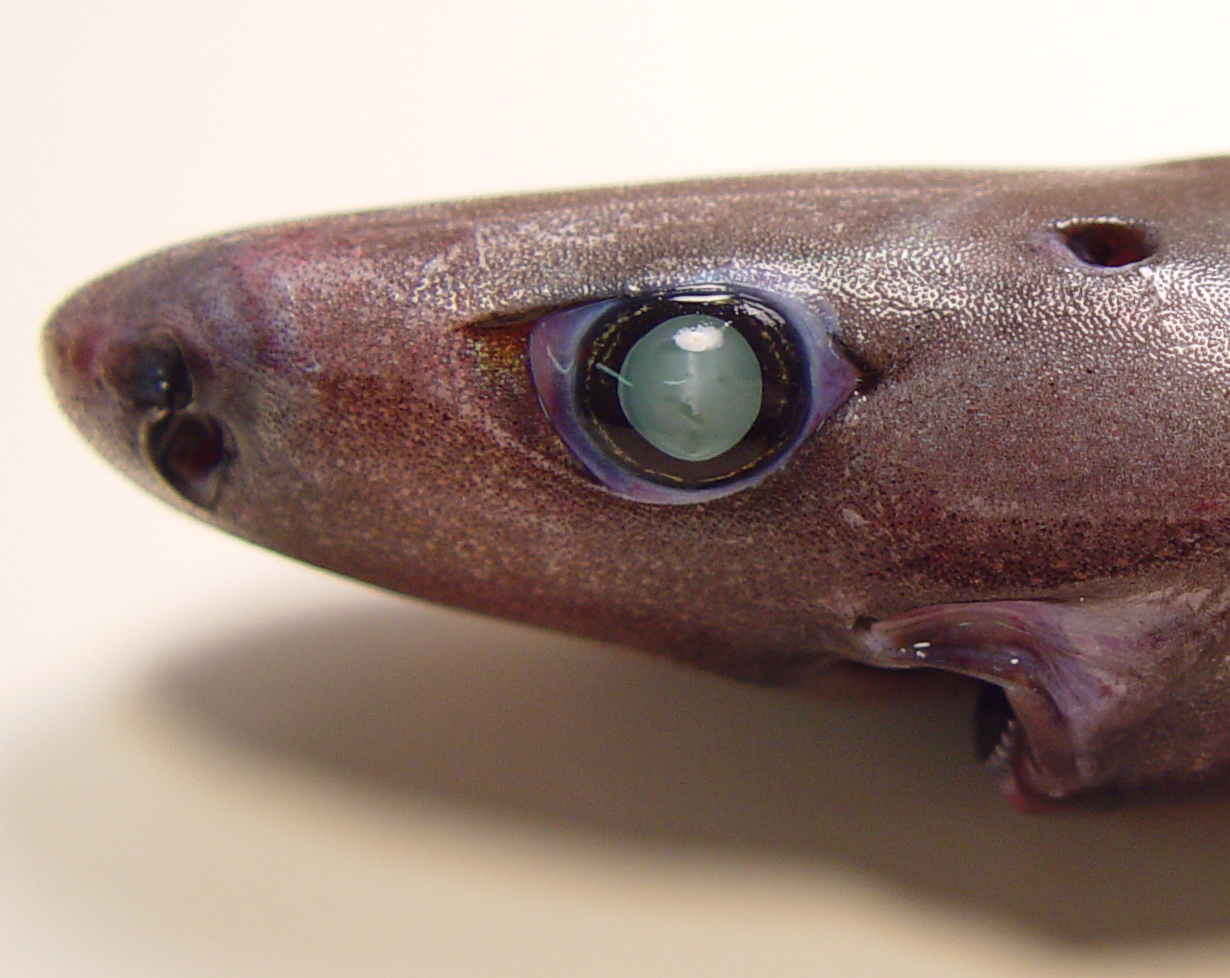 Smooth lanternshark (Etmopterus pusillus) from the Gulf of Mexico